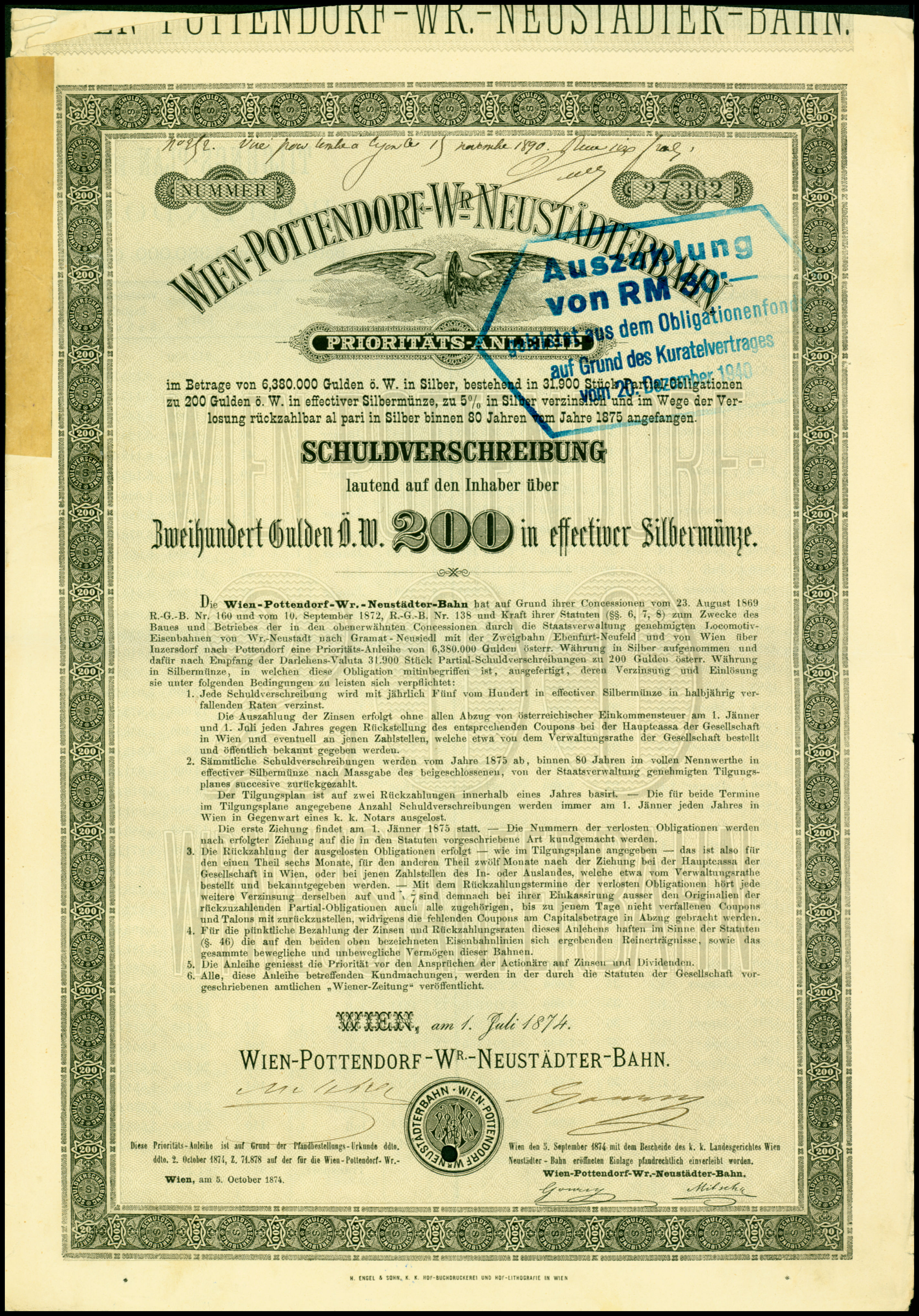 Bond of the Wien-Pottendorf-Wr.-Neustädter-Bahn, issued 1. July 1874